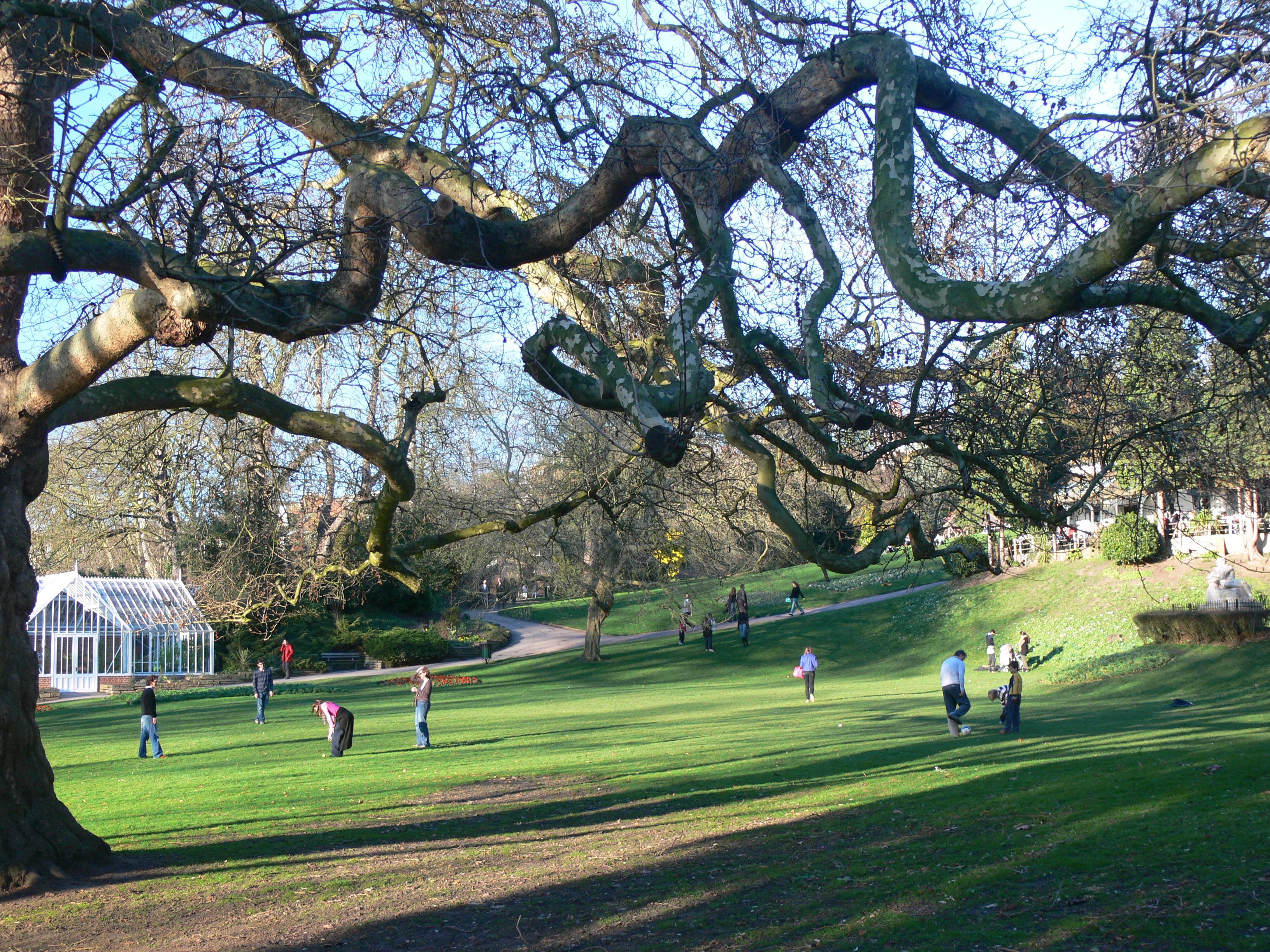 A view of Richmon Terrace Garden in Richmond Park